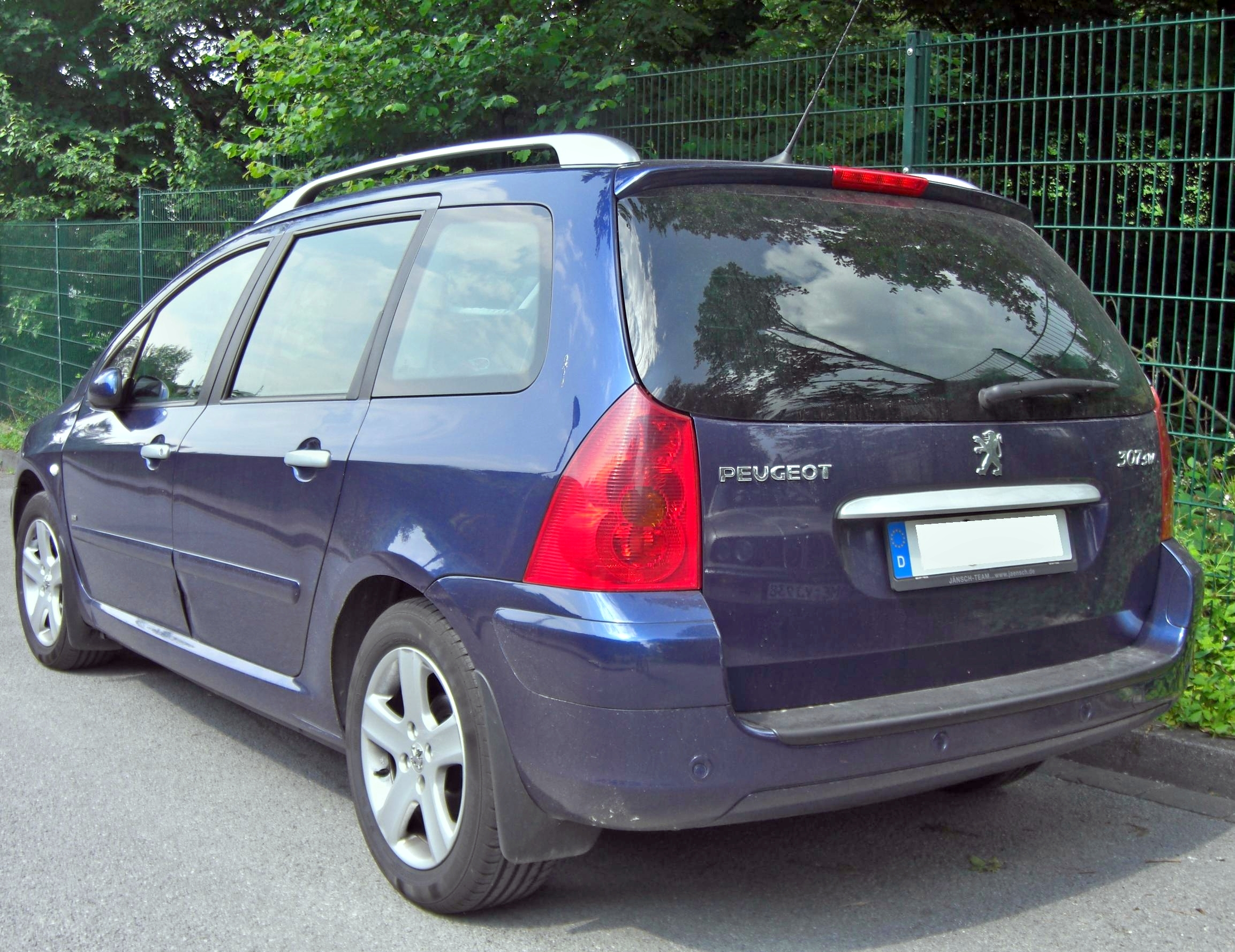 The old Peugeot 307SW